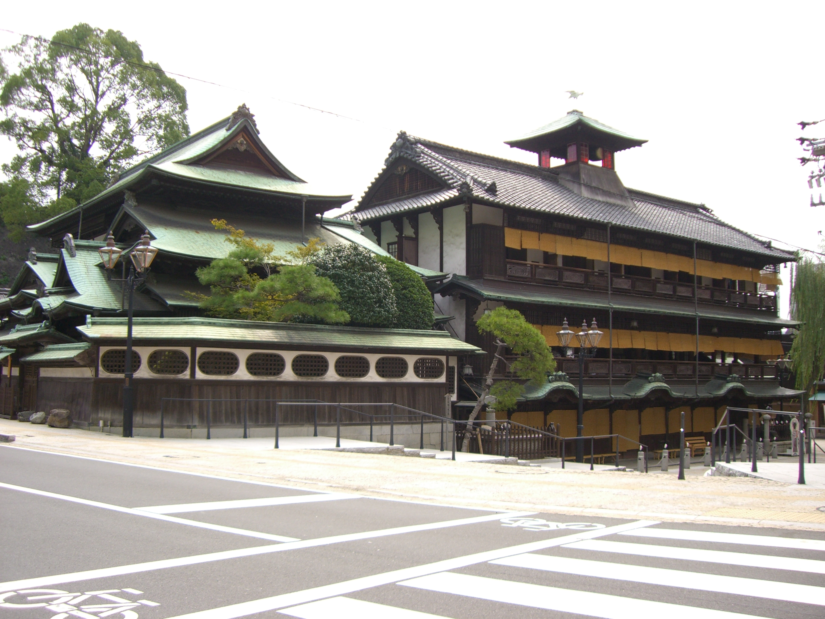 Dogo Hot Spring main building viewed from the northeast .The atmosphere created by its marvelous heritage was selected as one of the "Best 100 Sounds of Japan".(Ehime JAPAN)